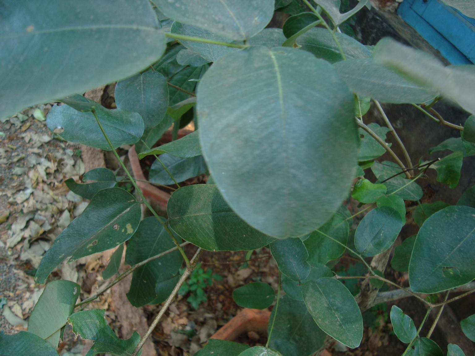 At Thrissur, Kerala, India